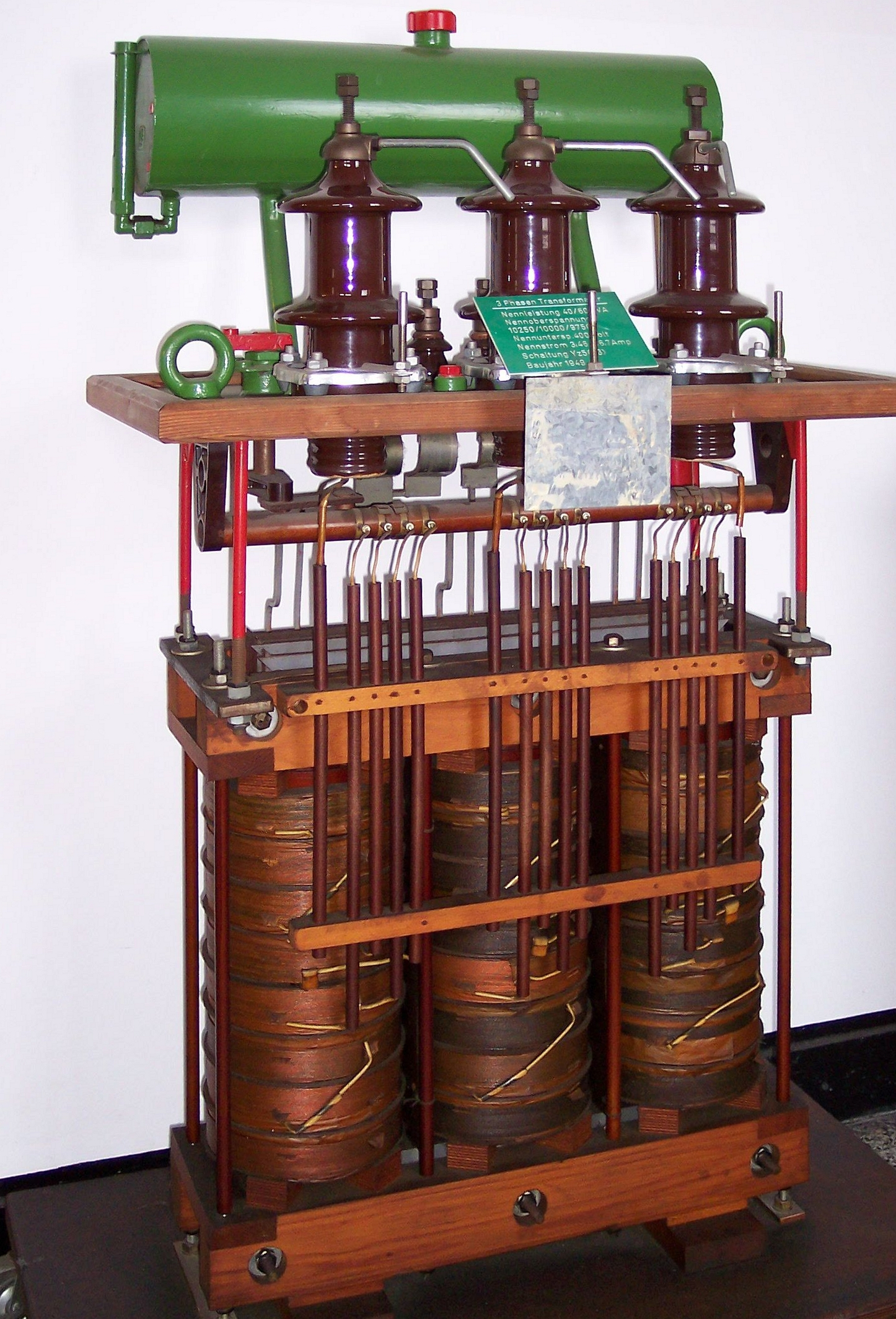 automic perspective correction of original